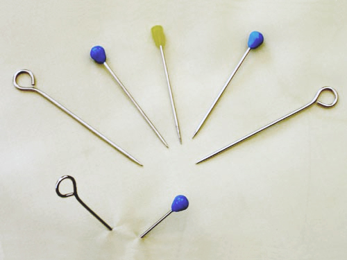 dress pin